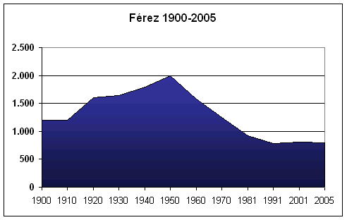 Ferez's population, Albacete, Spain, (1900-2005). Own work, given to PD.